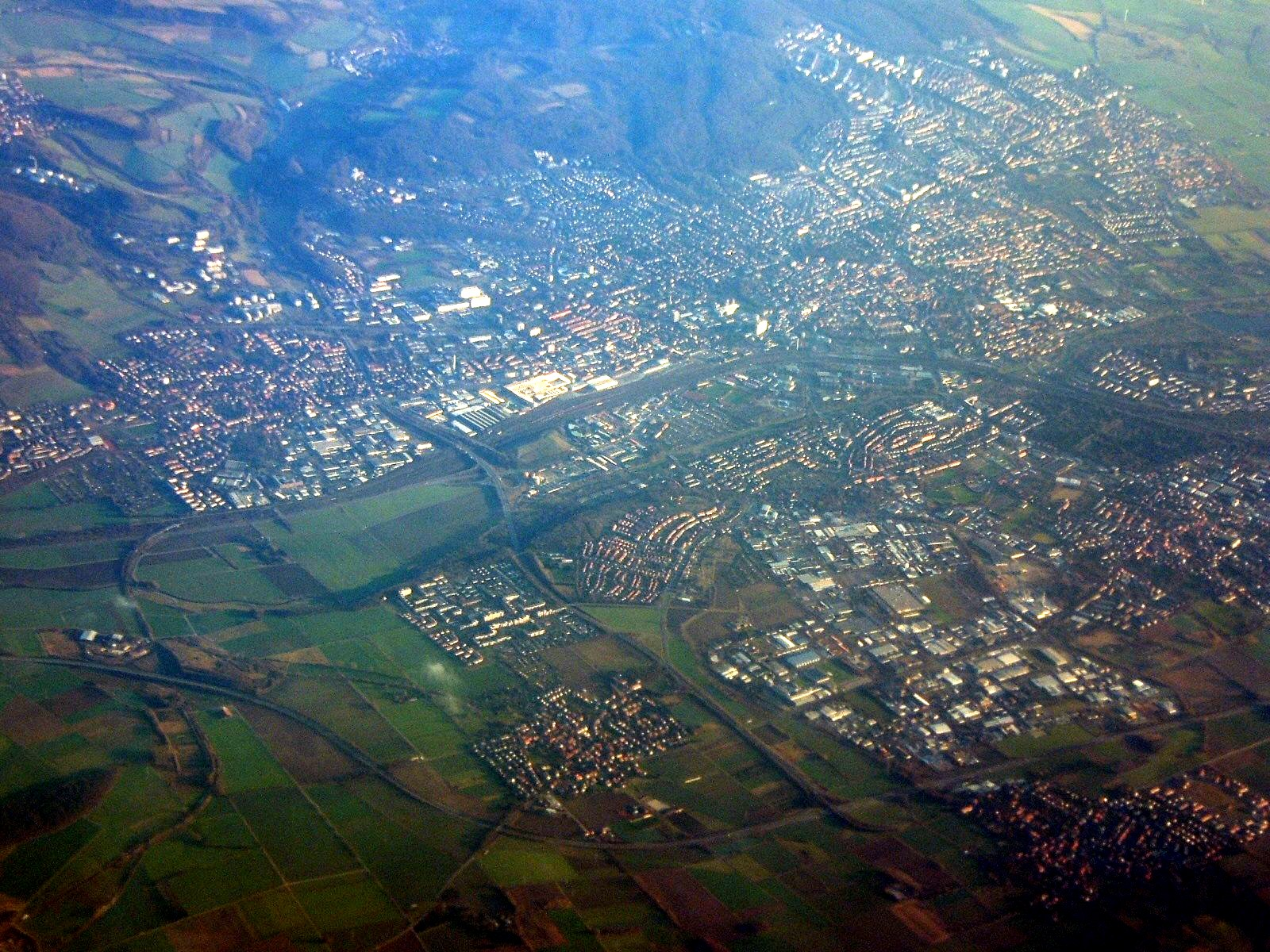 Aerial view of Göttingen, Germany